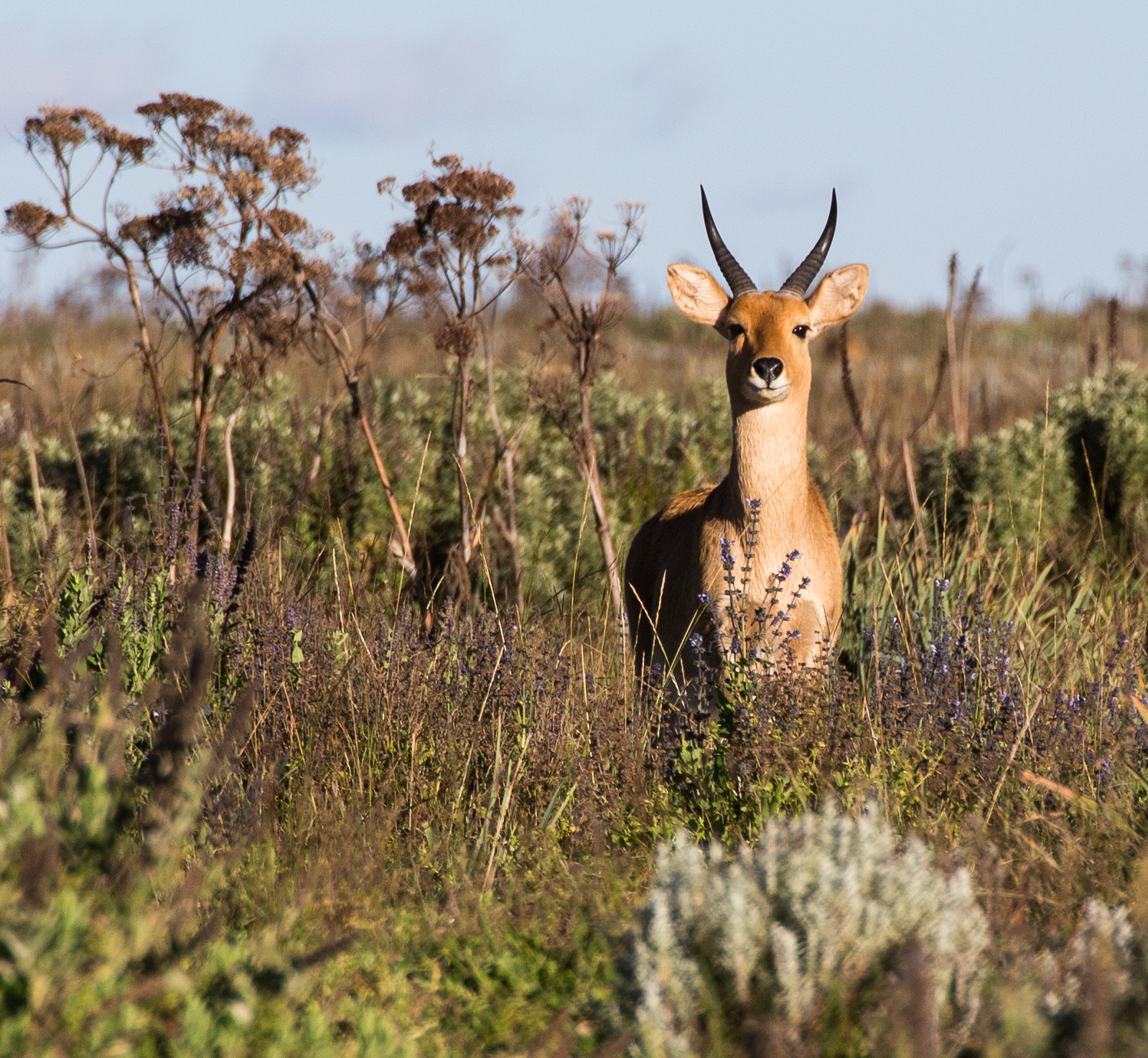 Bohor reedbuck